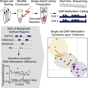 Abstract of Farlik et al's method for single cell DNA methylation sequencing.